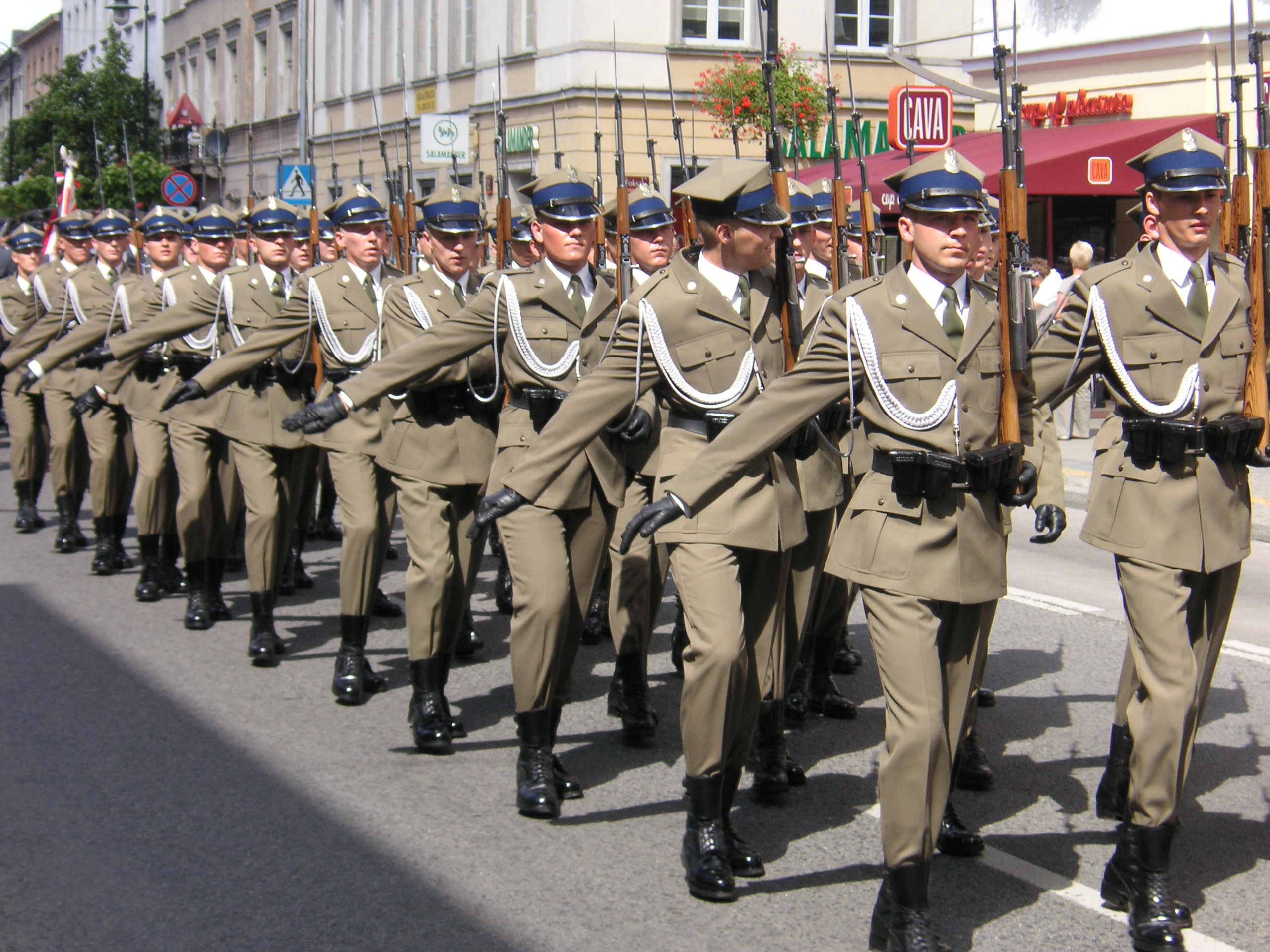 A military parade in Warsaw's Royal Road (Nowy Świat Street), commemorating the Feast of the Polish Army (August 15th) Land Forces